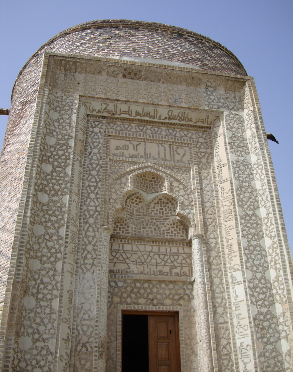 Sen Gonbad, Iran, Urumia